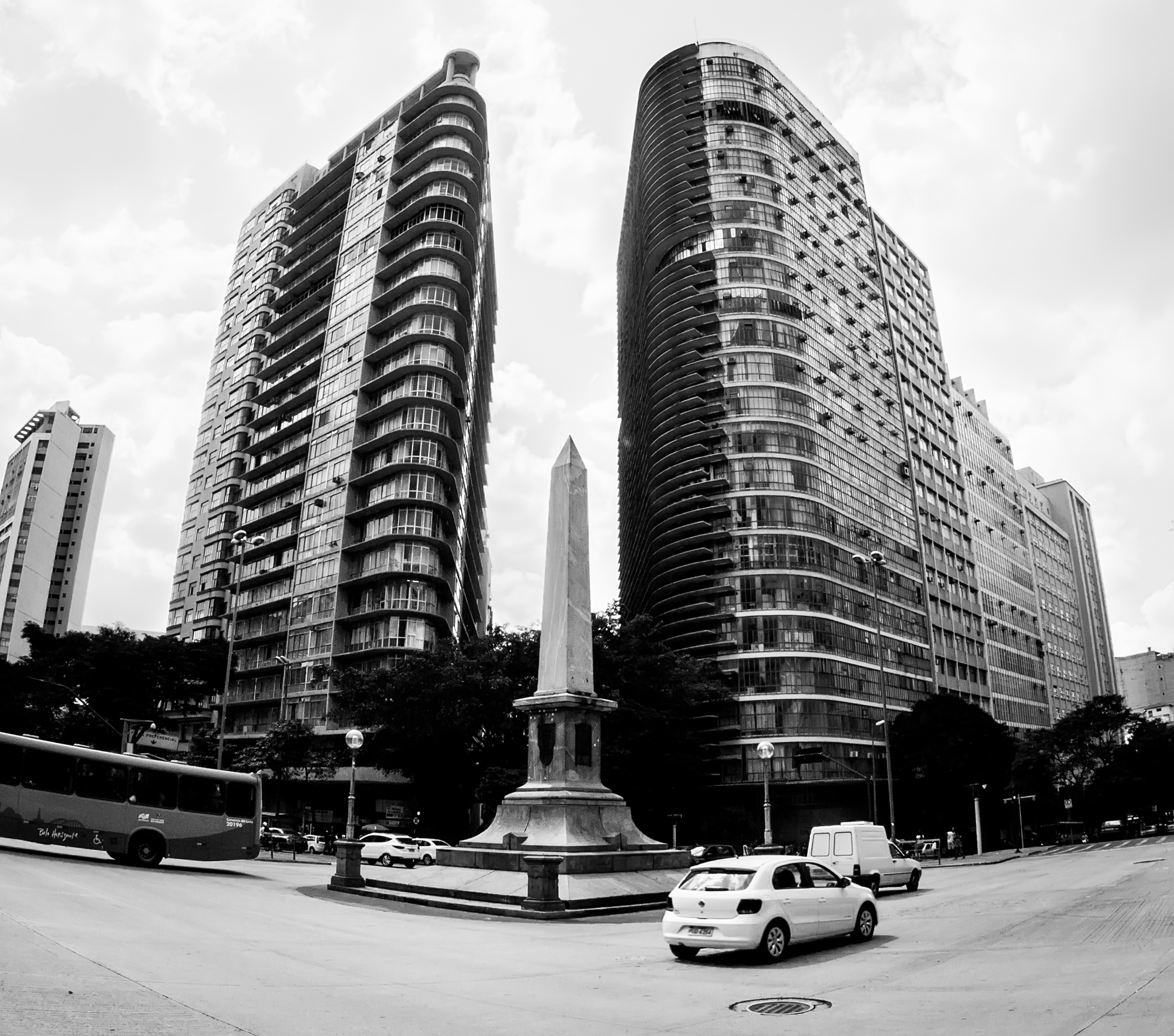 View of the Praça Sete de Setembro (7 September square) with the buildings Helena Passing (by Raphael Hardy Filho, 1957) and Banco Mineiro da Produção (by Oscar Niemeyer, 1953) in the background, in Belo Horizonte, Minas Gerais, Brazil.